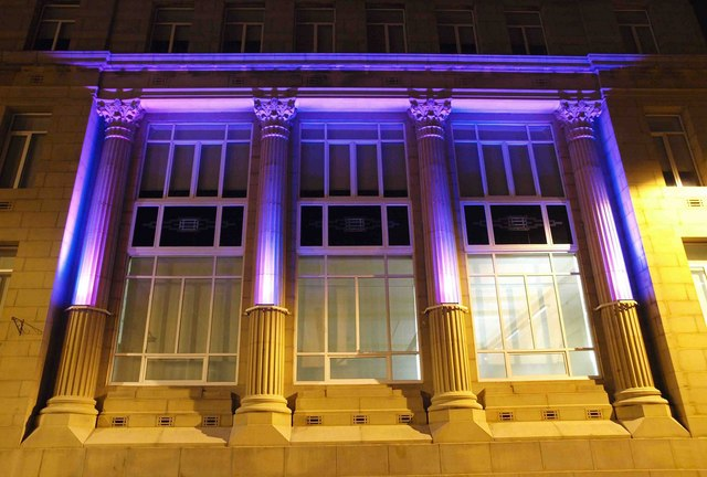 The Barnsley Building Society HQ windows to Regent Street Or what was, as last week heads of terms were agreed for the society to be taken over by the Yorkshire Building Society as Barnsley had a £10 million problem with Icelandic banks!